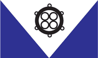 Flag of Vaivara vald, Estonia